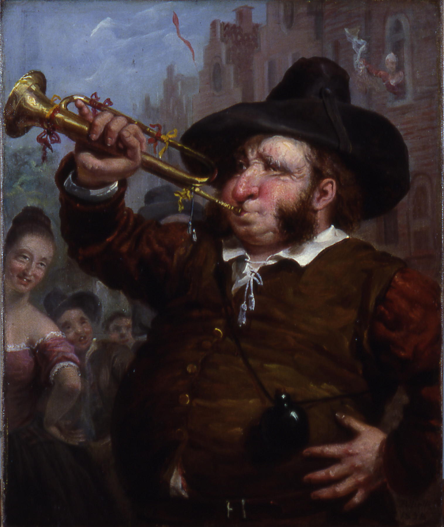 Although he was an accomplished portraitist, Elliott had received little formal training apart from six months in 1829 spent in the studio of John Quidor (1801-81), who had broken with the traditional realism prevailing in the first half of the 19th century to produce highly fanciful scenes taken from the literature of Washington Irving and James Fenimore Cooper. In this scene, Elliott appears to acknowledge his indebtedness to Quidor who, by then, had been almost completely forgotten by the public. In this work, Elliott had depicted the rotund Anthony Van Corlear, who won "prodigious favor in the eyes of the women by means of his whiskers and his trumpet." This scene is taken from Washington Irving's "Diederich Knickerboker's, A History of New York," (1809).